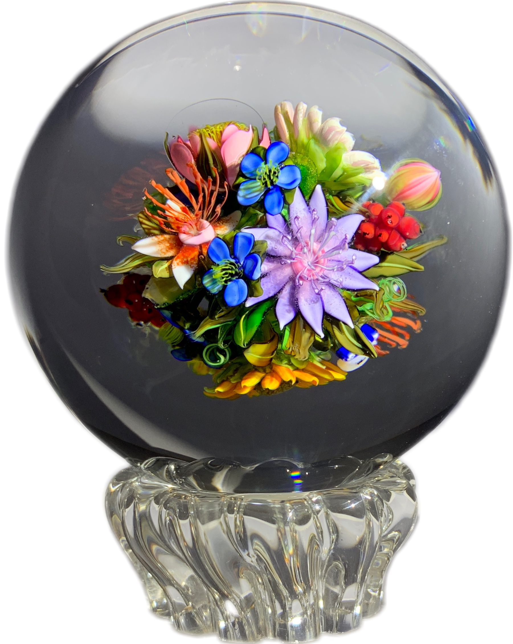 Ken Rosenfeld 2018 Large 360° Orb Lampwork Flower Bouquet